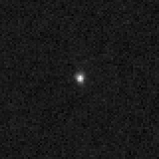 Image of Sedna, taken by Hubble Space Telescope